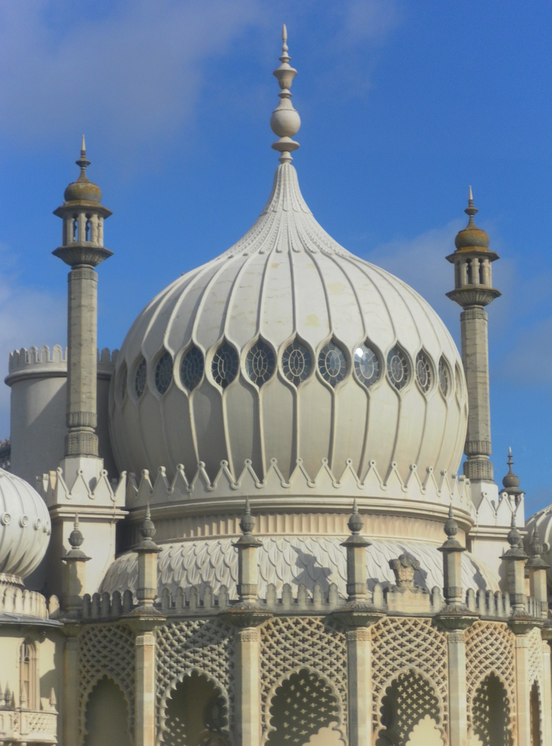 One of the onion domes on Brighton's Royal Pavilion, viewed from the east (Grand Parade).